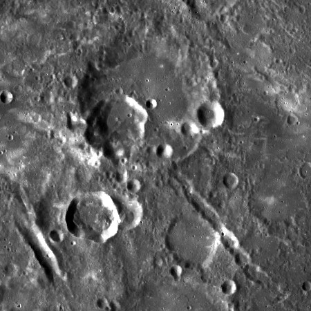 Dziewulski crater with Catena Dziewulski extending to its southeast. The 32-km crater overlaying Dziewulski’s southwest floor and rim is Dziewulski Q, while the shadowed 25-km below Dziewulski Q is Popov W.